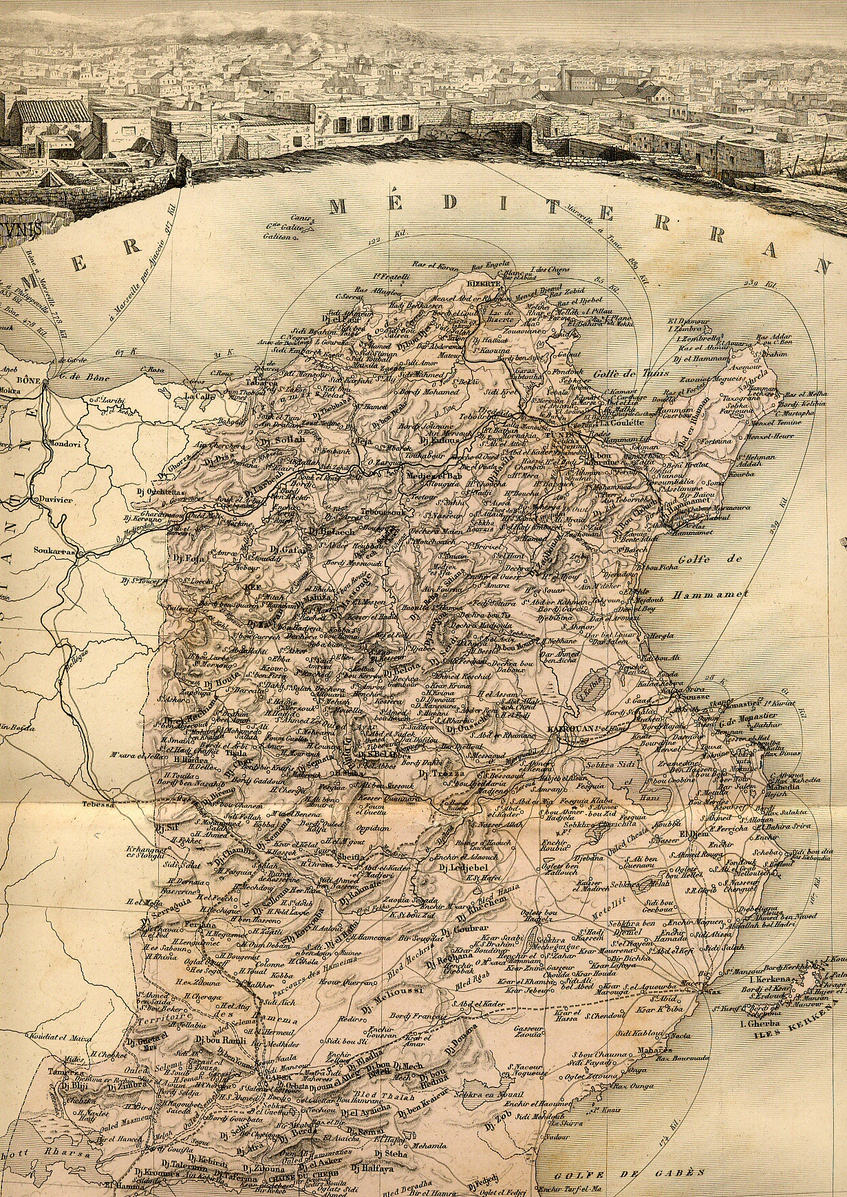 Map of Tunisia by Vuillemin,Thuilier, Lacoste et Lorsignol (Paris 1902).